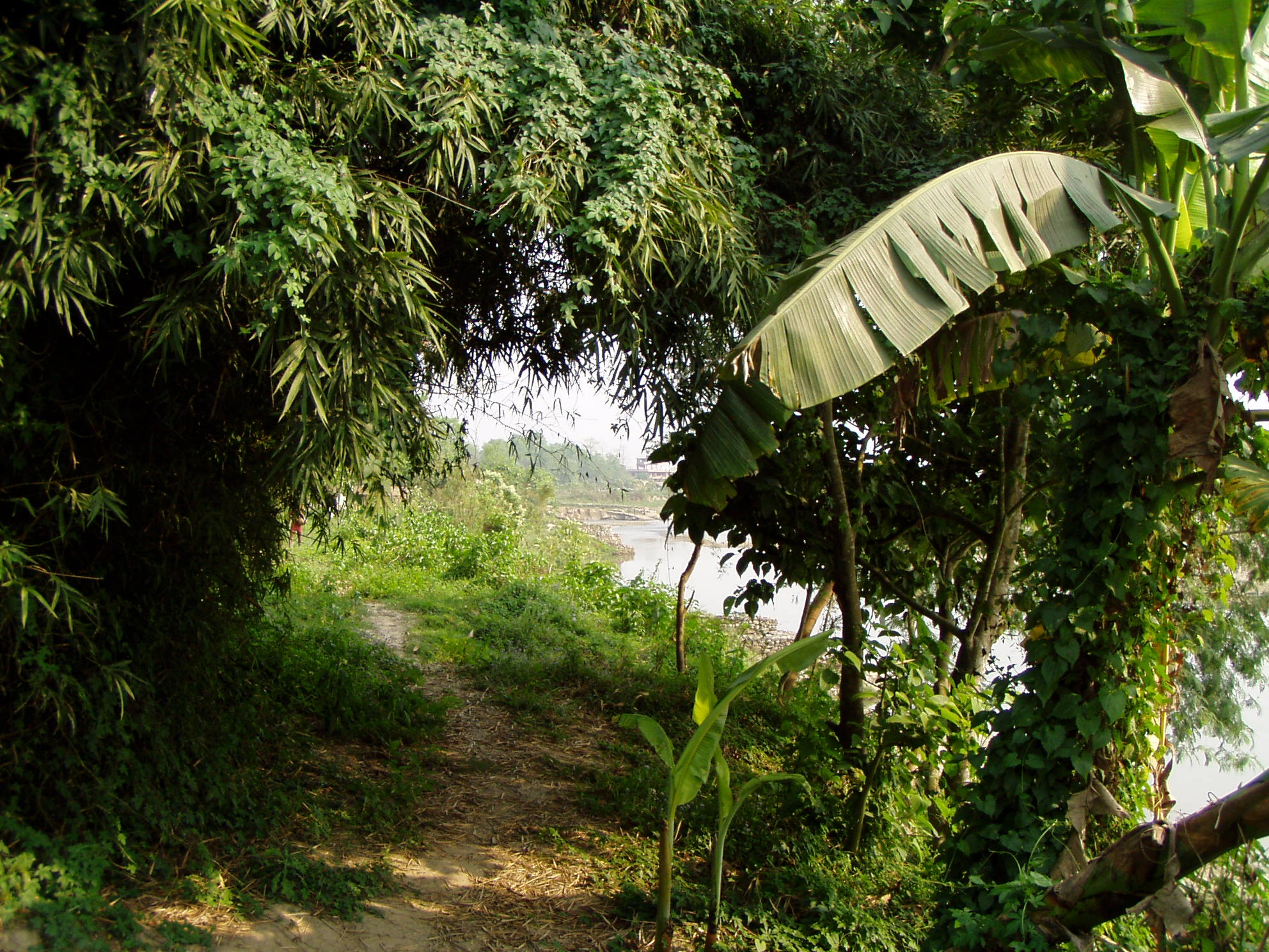 Nature in Sauraha, District Chitwan, Nepal